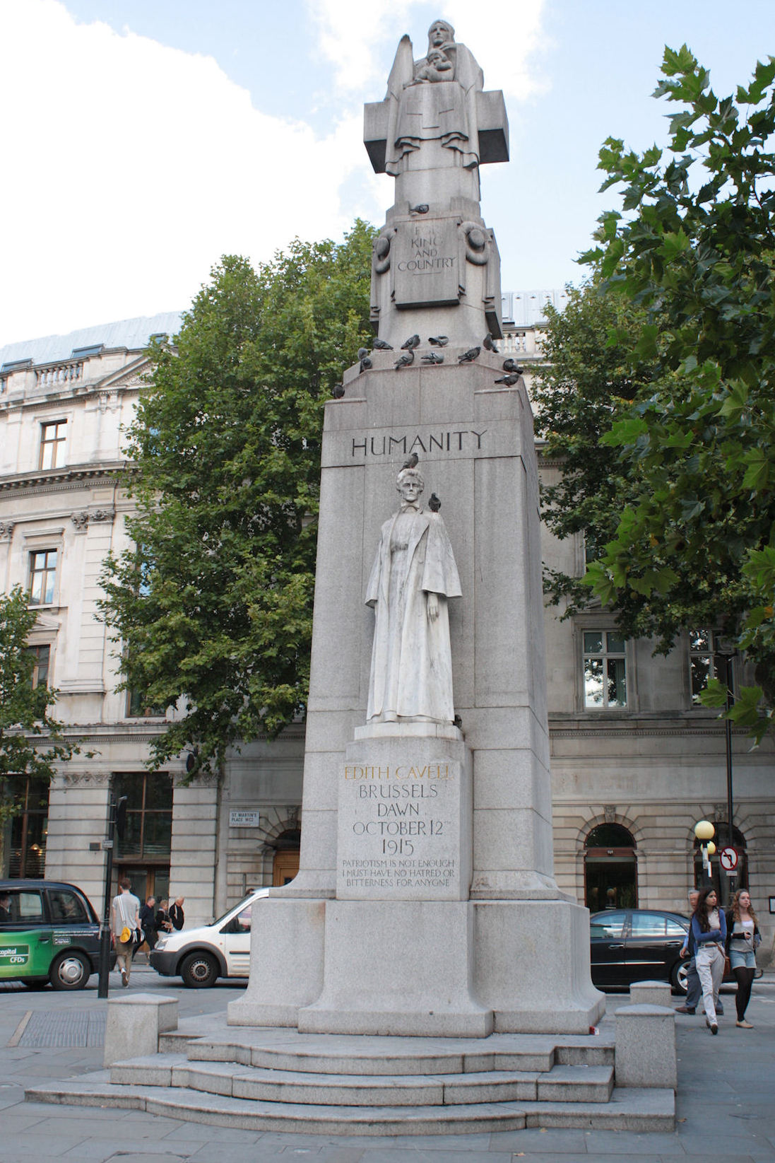 Edith Cavell was a British nurse and humanitarian who was shot by the Germans for assisting British and Belgian soldiers to escape from enemy territory during WWI. Her memorial is in St Martin's Place, close to St Martin's in the Fields and just north of Trafalgar Square.